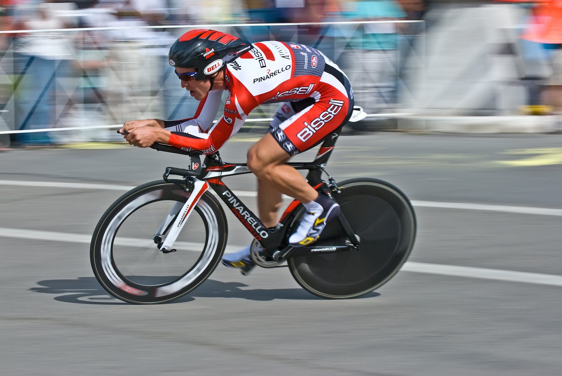 Ben Jacques-Maynes - 2009 Tour of California. As seen on course in Los Olivos during the stage 6 time trials starting in Solvang.